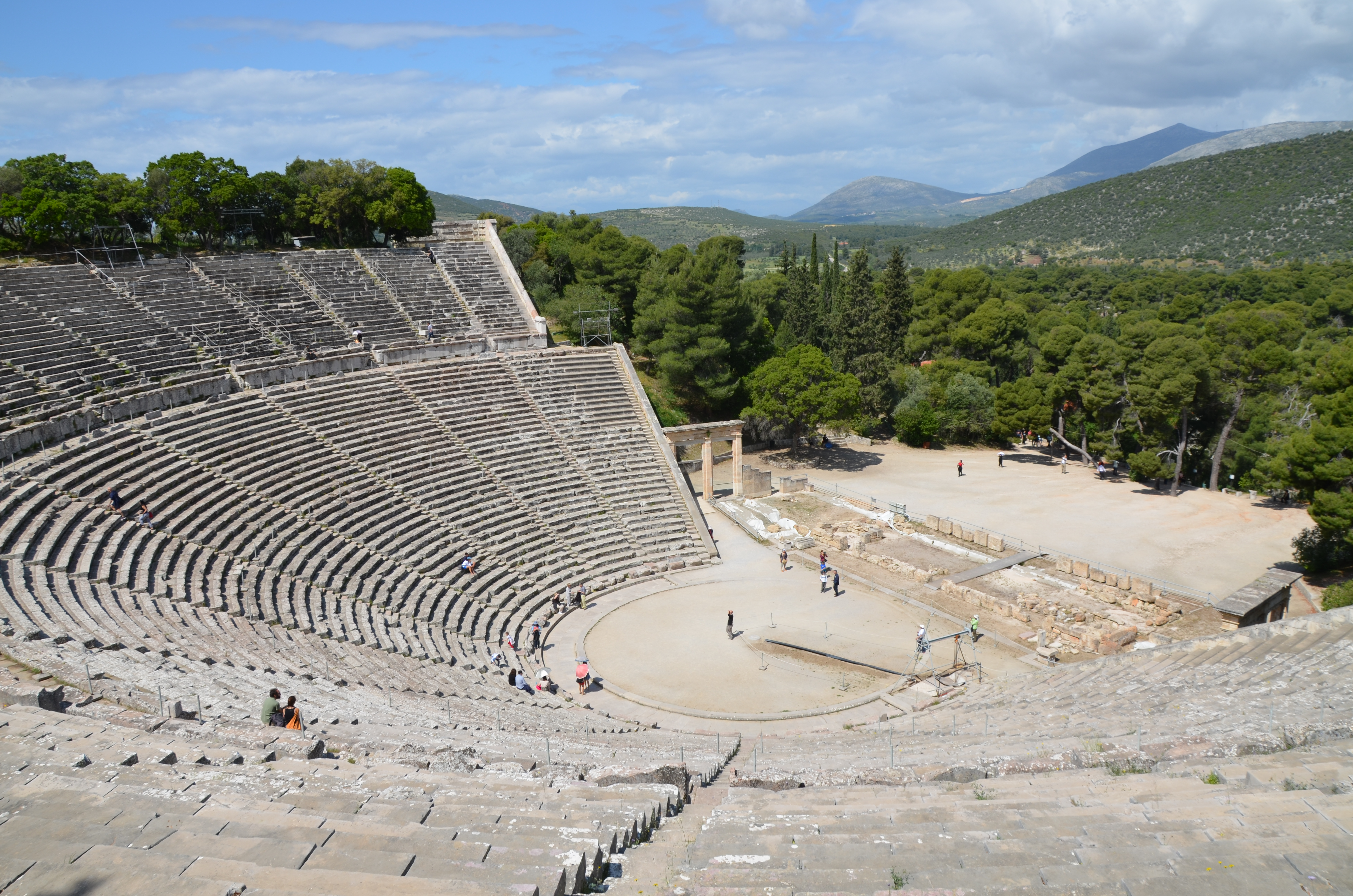 The great theater of Epidaurus, designed by Polykleitos the Younger in the 4th century BC, Sanctuary of Asklepeios at Epidaurus, Greece